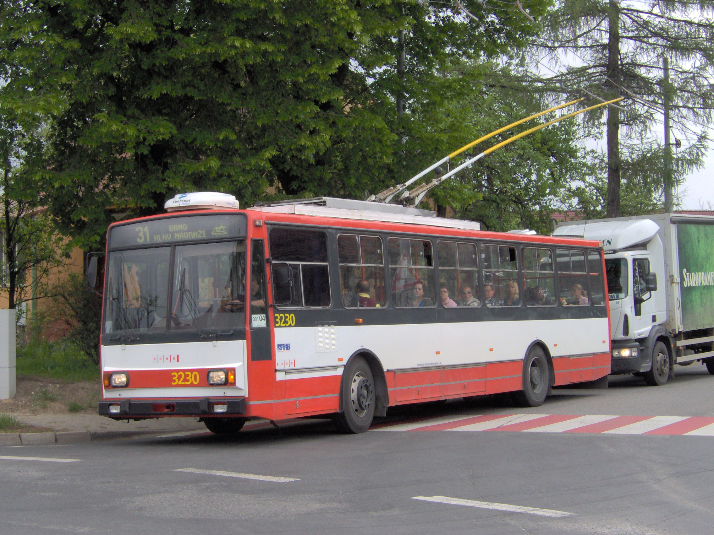 Škoda 14TrR No. 3230 trolleybus, Brno, Czech Republic